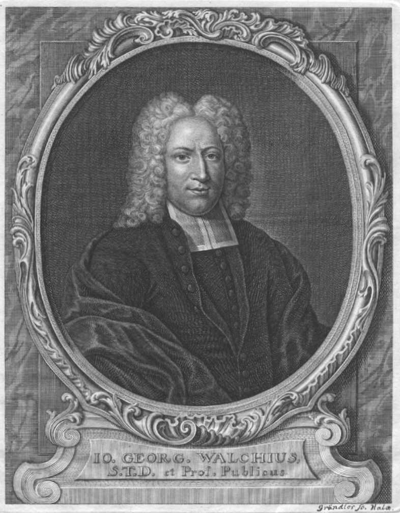 Portrait of Johann Georg Walch, copper engraving; image: 194x151 mm; plate: 200x160 mm